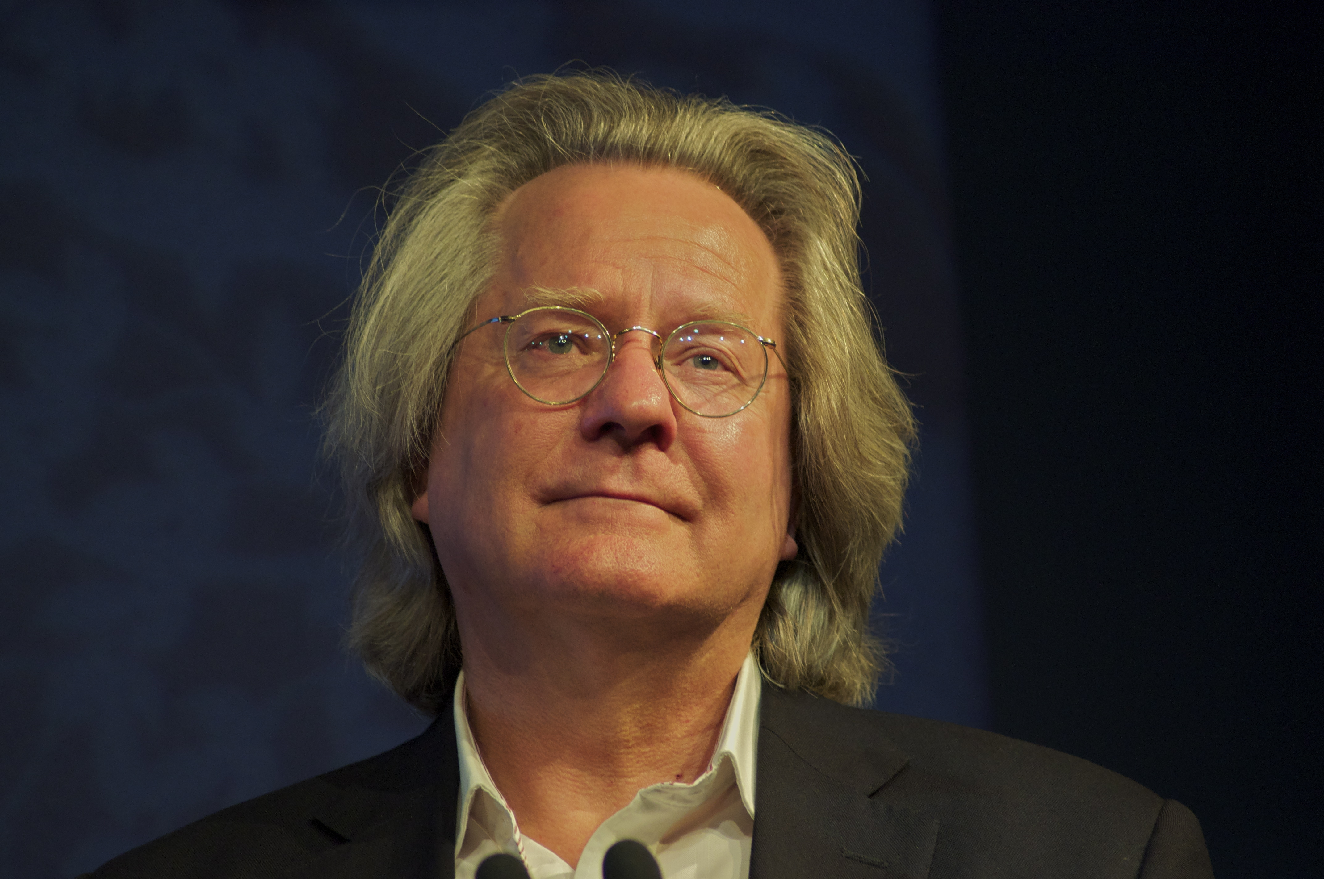 AC Grayling at the Edinburgh Book Festival, August 2011